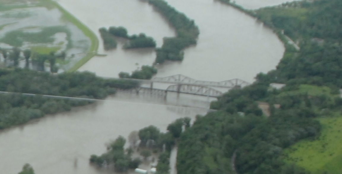 Plattsmouth Bridges on June 22, 2011 during Missouri River floods